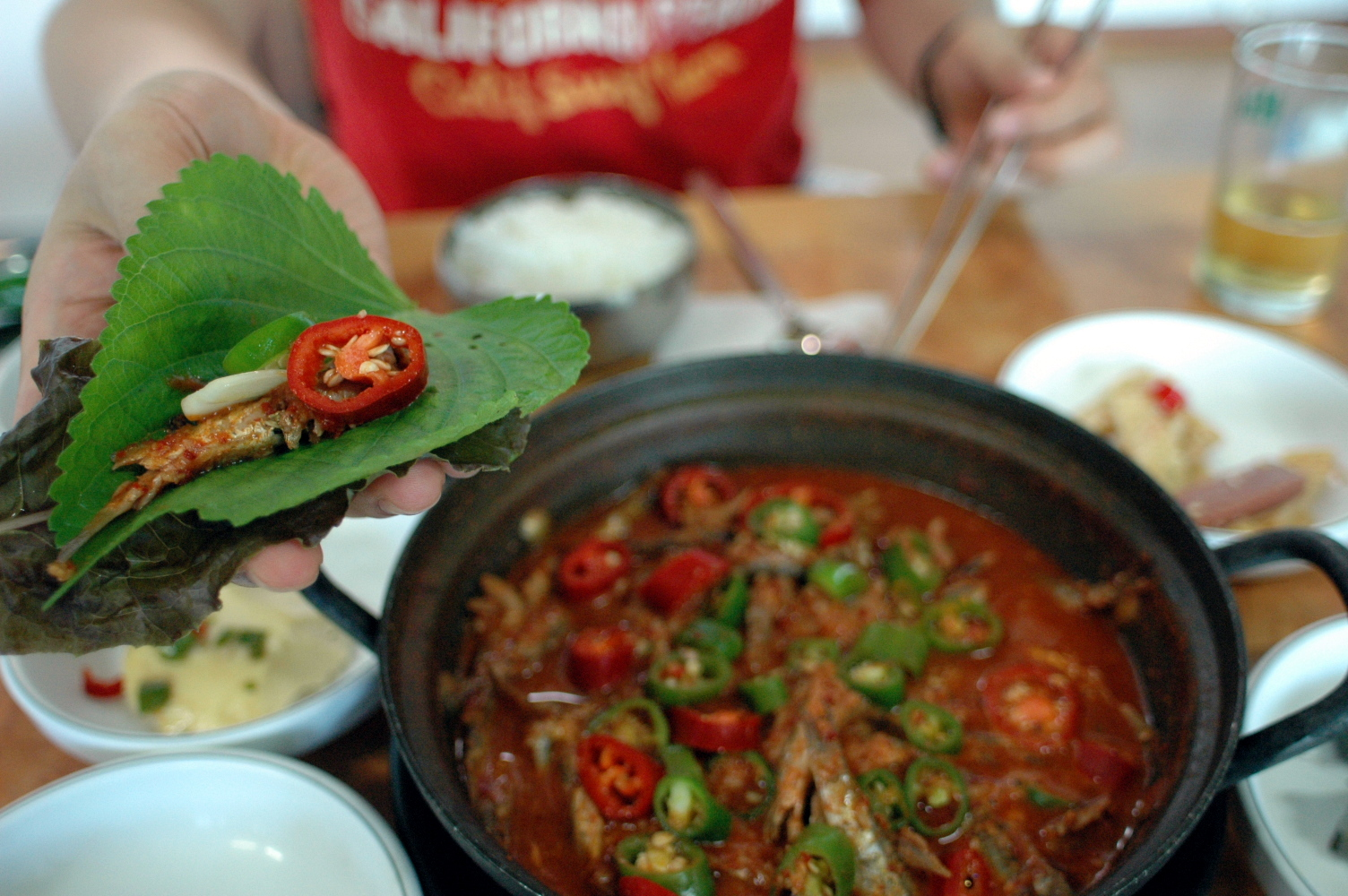 Myeolchi bossam (멸치보쌈), a Korean dish made with anchovies, vegetables and seasonings.